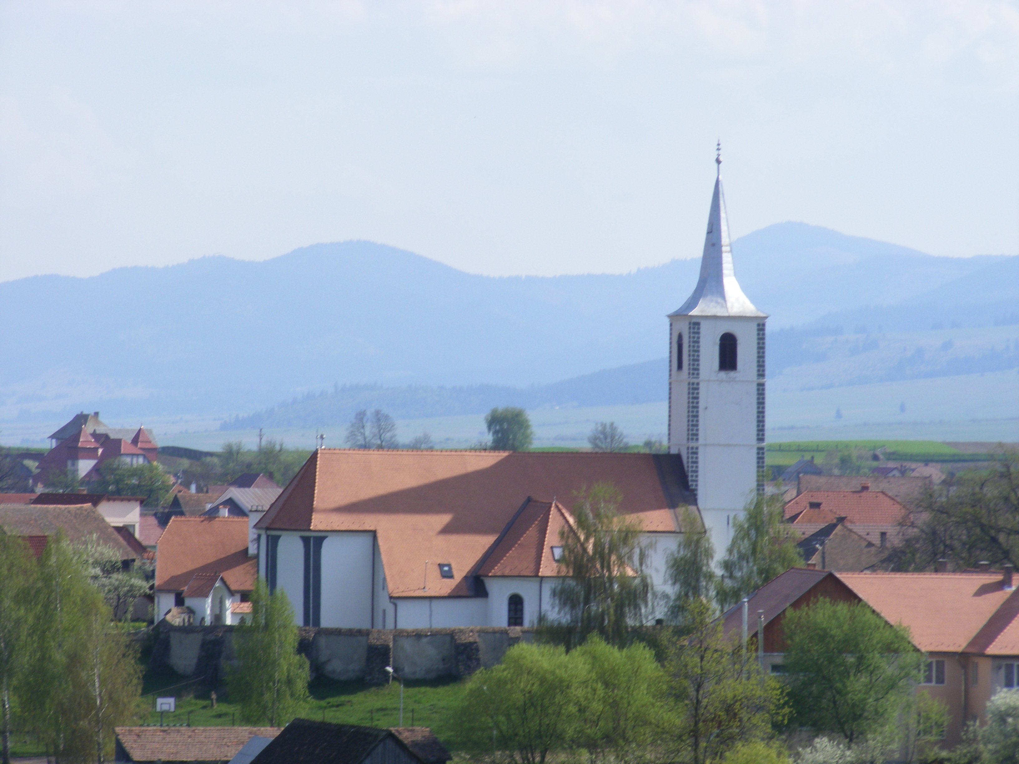 The romano-catholic church in Csíkszentkirály, Transsilvany, Harghita county